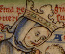 Emma of Normandy with her two young sons